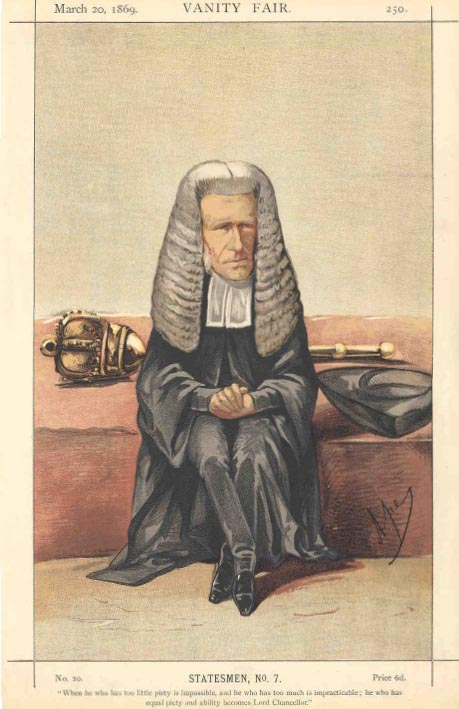 Statesmen No.7: Caricature of The Lord Chancellor. Caption reads: "When he who has too little piety is impossible, and he who has too much is impracticable; he who has equal piety and ability becomes Lord Chancellor."